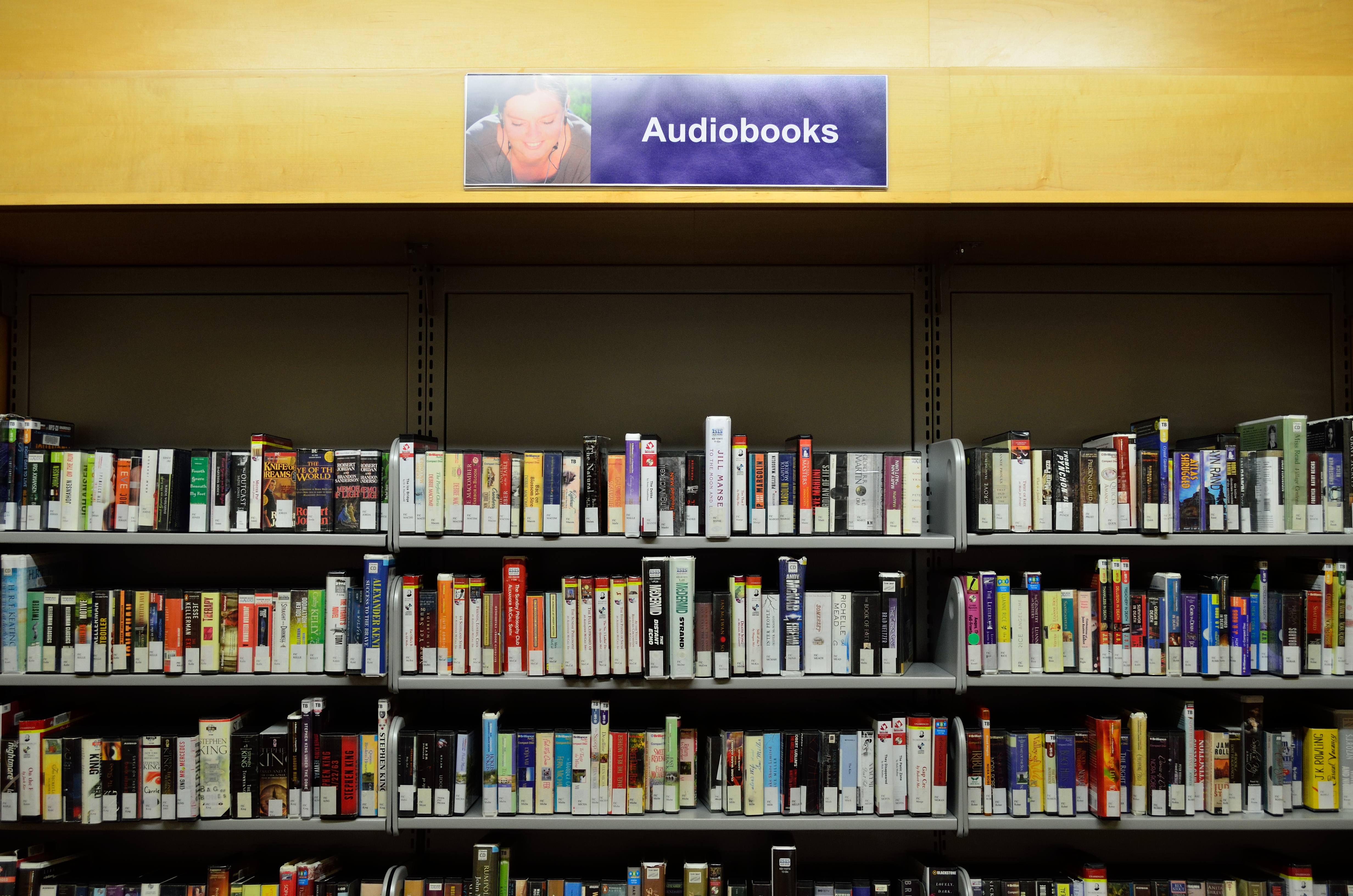 Audiobooks in a public library